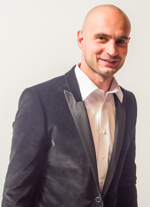 Georg Kirsberg 2015.